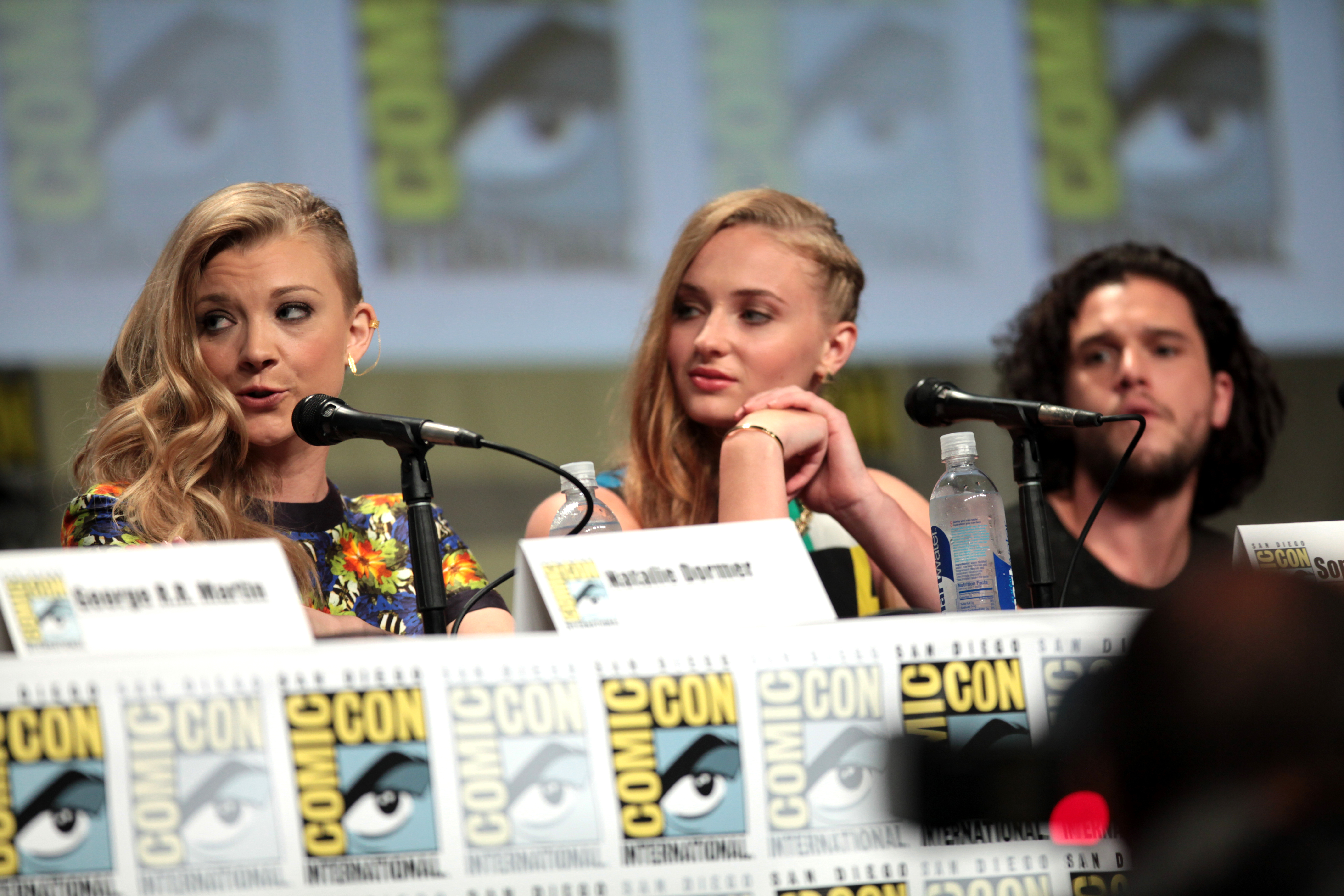 Natalie Dormer, Sophie Turner and Kit Harrington speaking at the 2014 San Diego Comic Con International, for "Game of Thrones", at the San Diego Convention Center in San Diego, California.